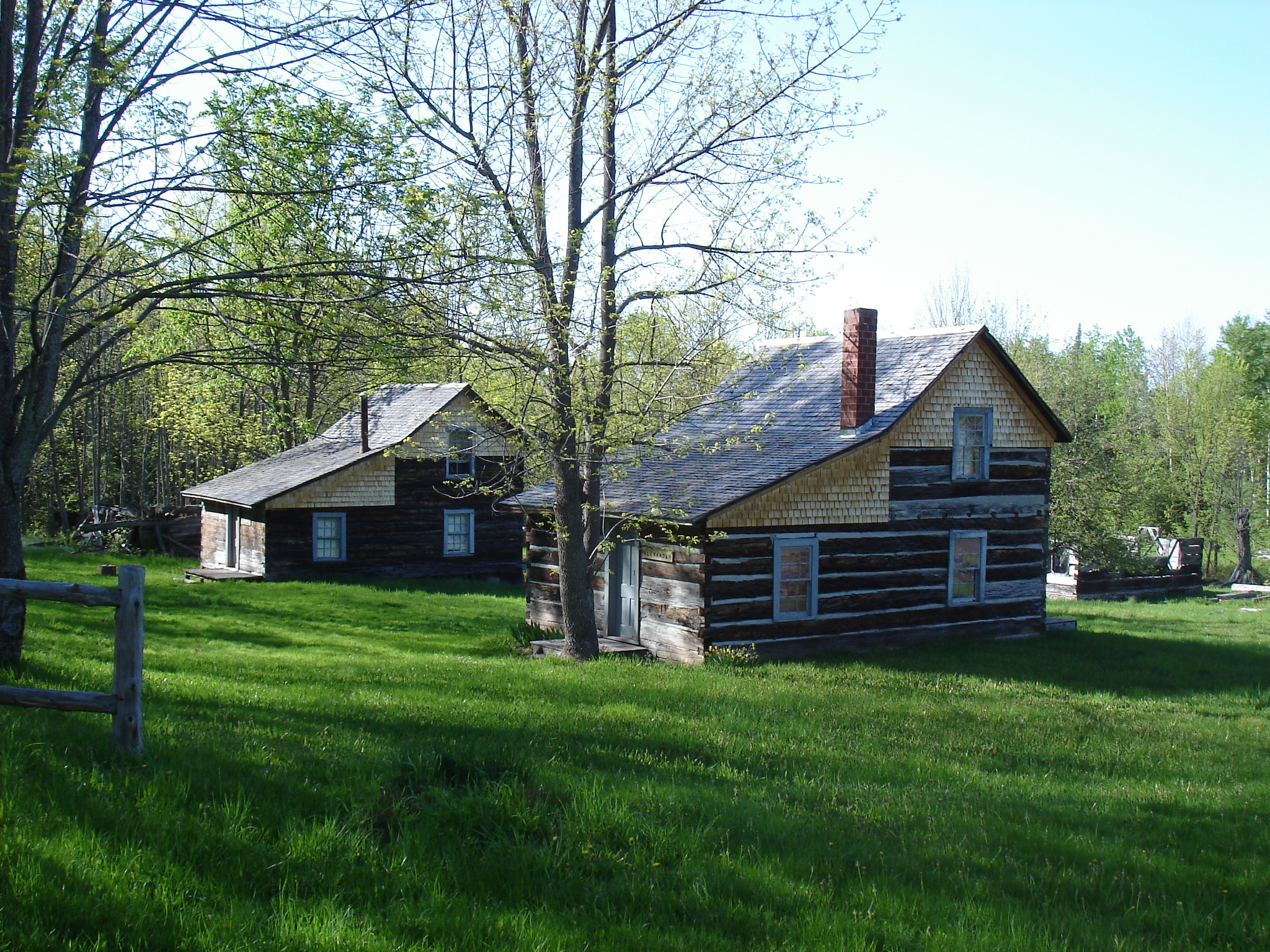 Old Victoria